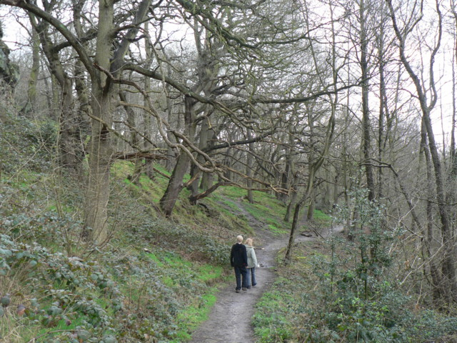 Hetchell Wood The path heading south through Hetchell Wood, beside Hetchell Craggs, just visible at top left.